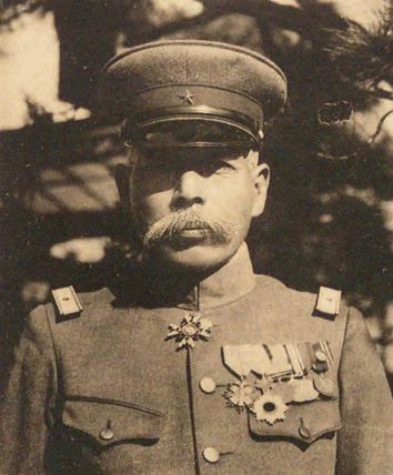 Kamura Tatsujiro